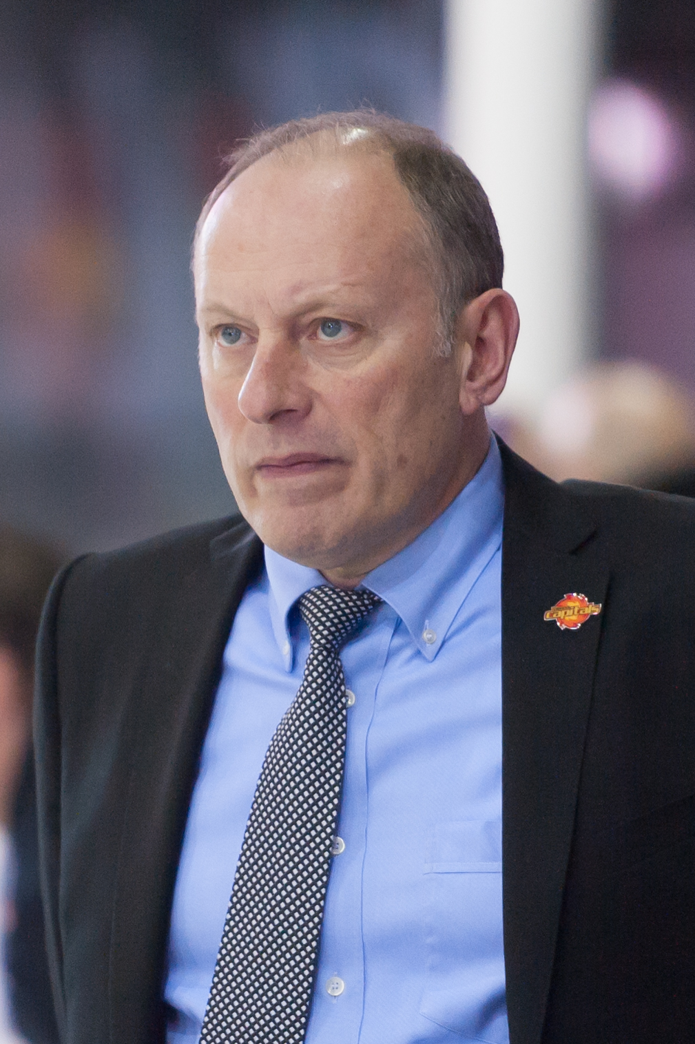 EBEL Vienna Capitals vs EC-KAC 2016-01-03